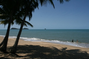 Clifton Beach, Cairns Northern Beaches